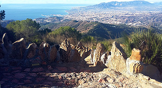 Calizas de San Antón zone, at Oneness Viewpoint